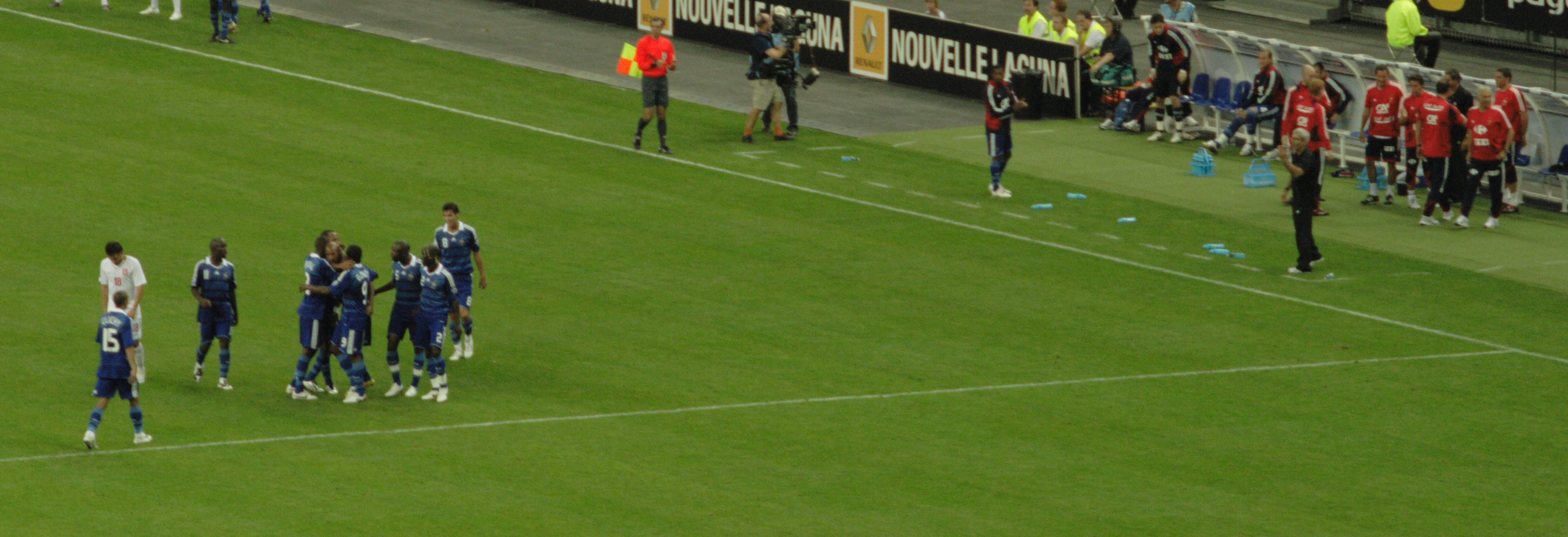 Rencontre de football France - Serbie